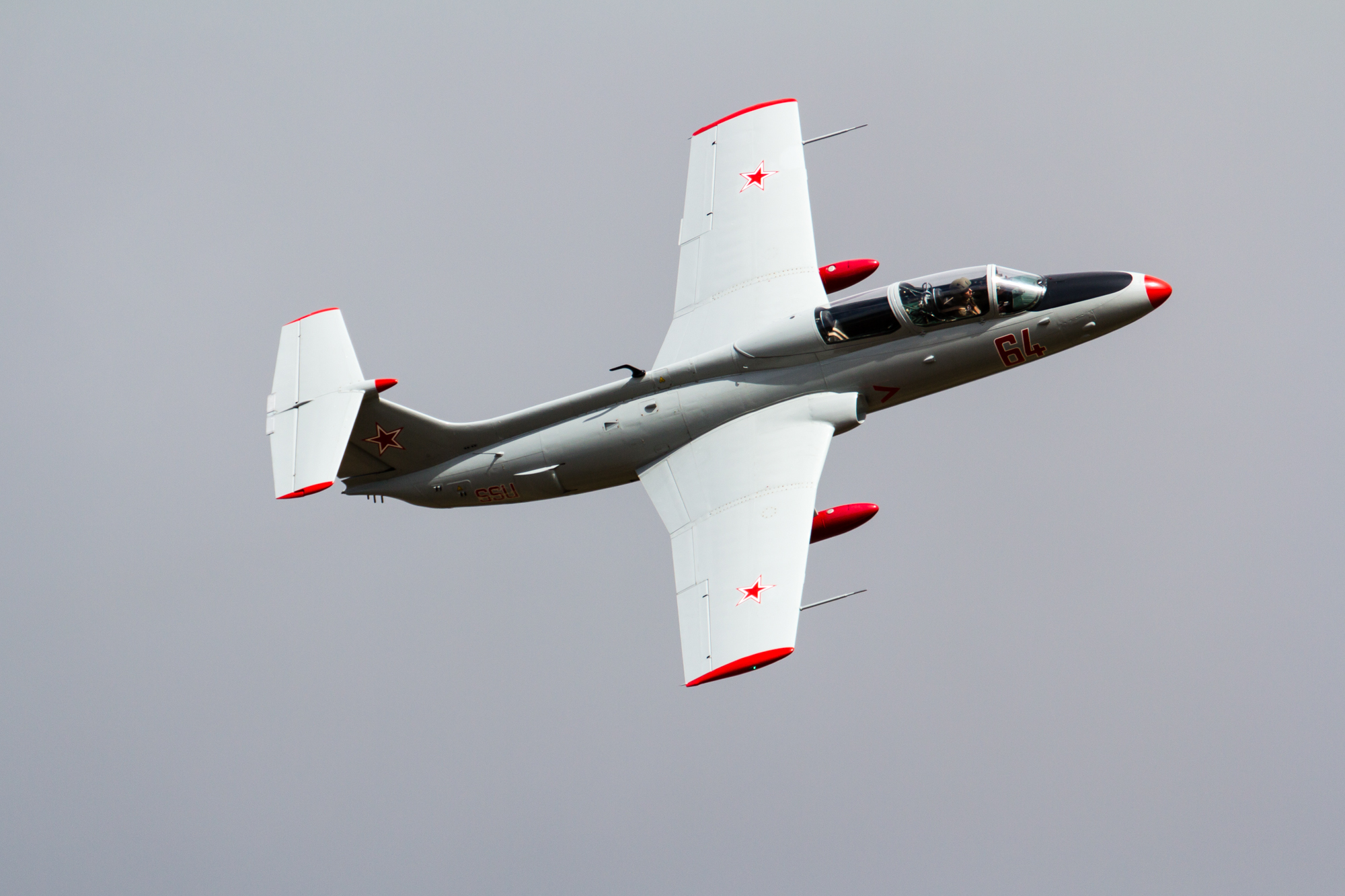 Classic Fighters 2015 - L-29 Delfin ZK-SSU